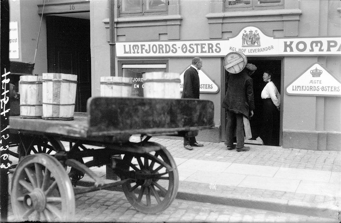 Limfjordsøsters-Kompagniet's outlet at Ved Stranden 16 in Copenhagen, Denmark